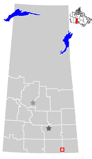 Location of Estevan, Saskatchewan